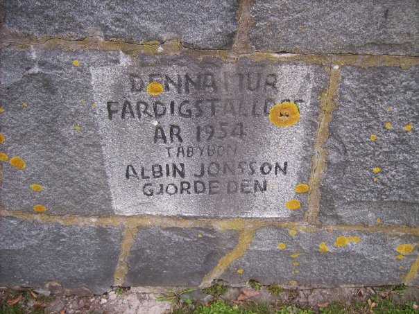 The church in Tåby. The Stone wall.